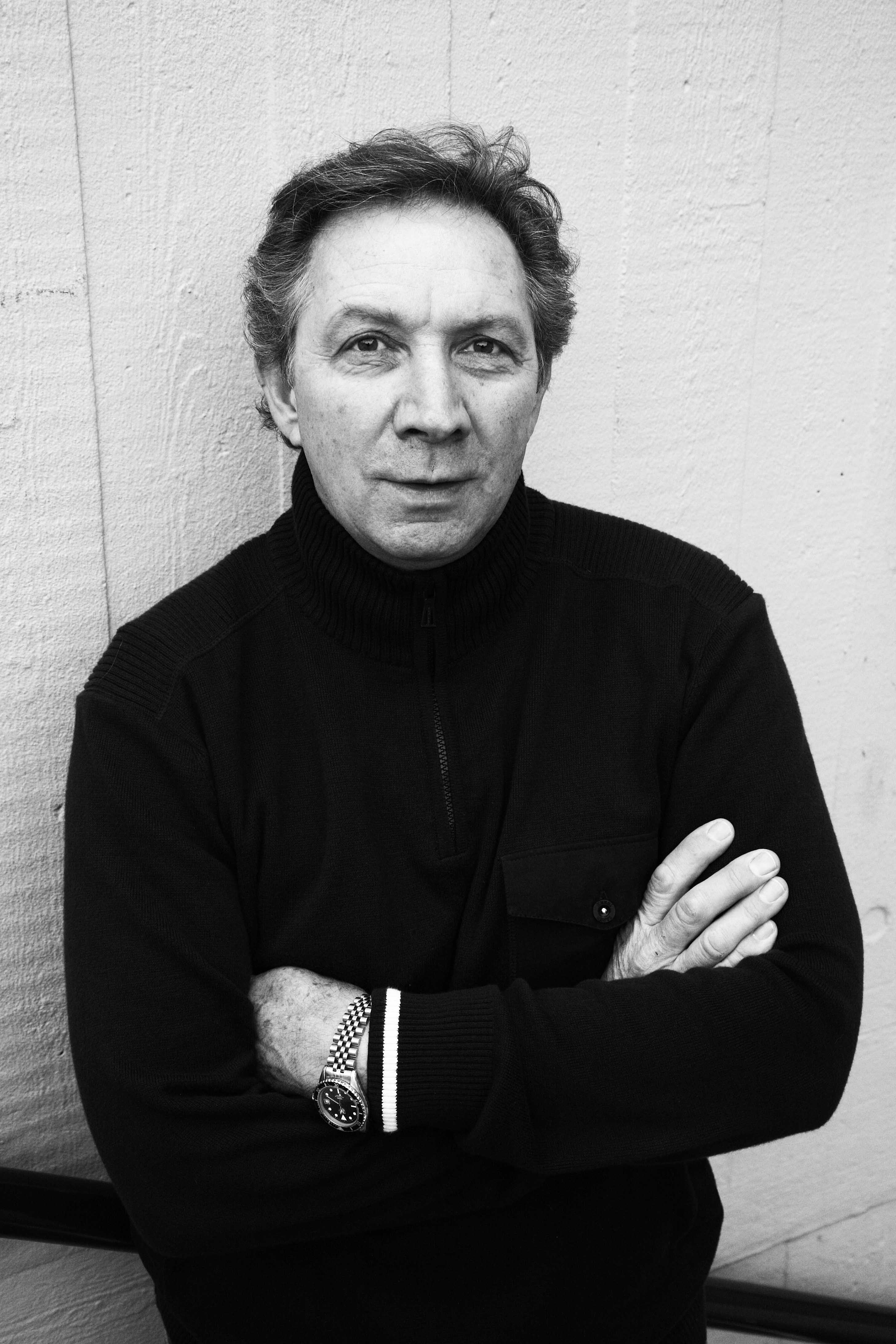 Richard Hope (actor)